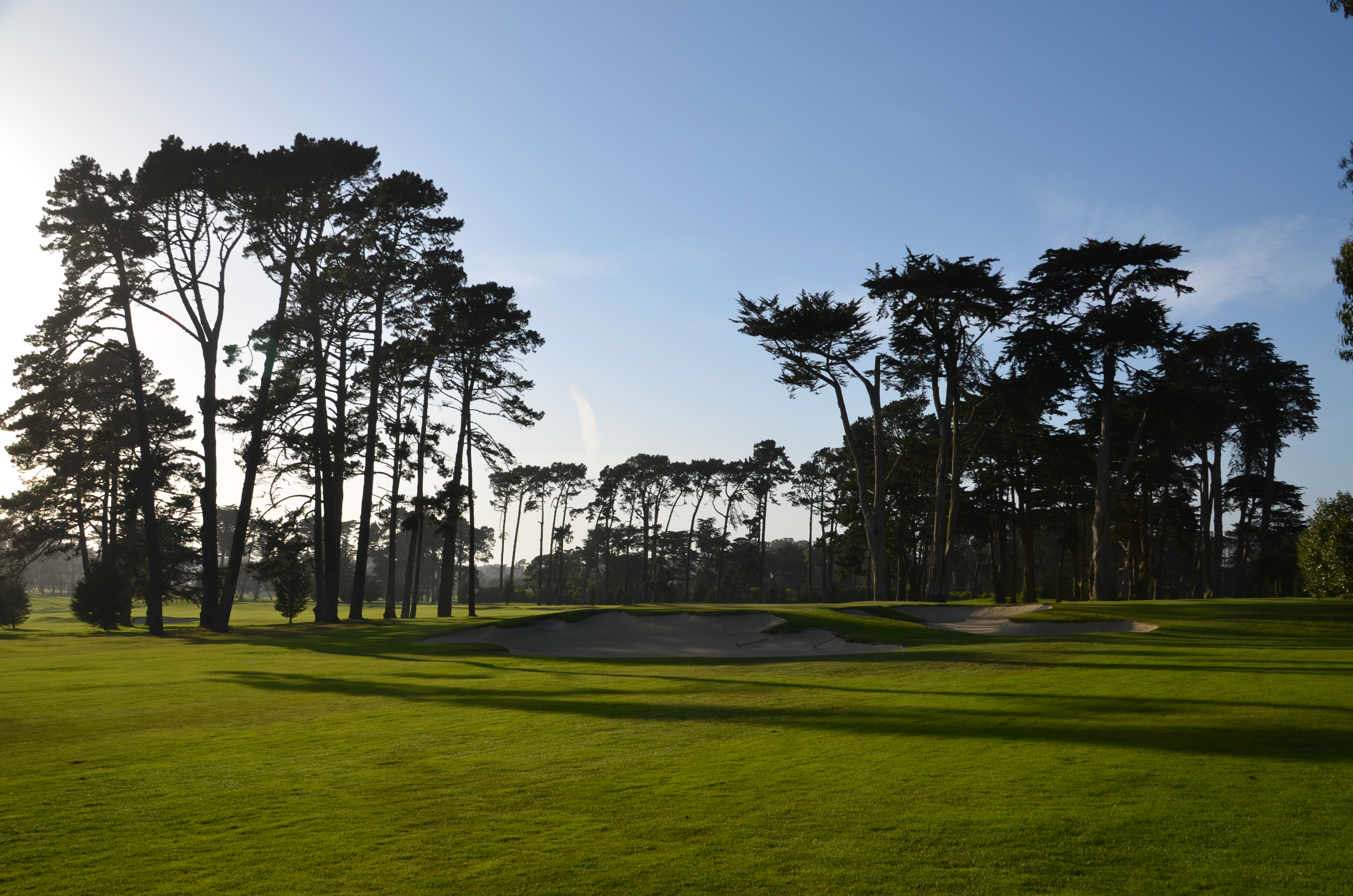 No 14 "Pitch" 351 Yards Par 4 at the San Francisco Golf Glub